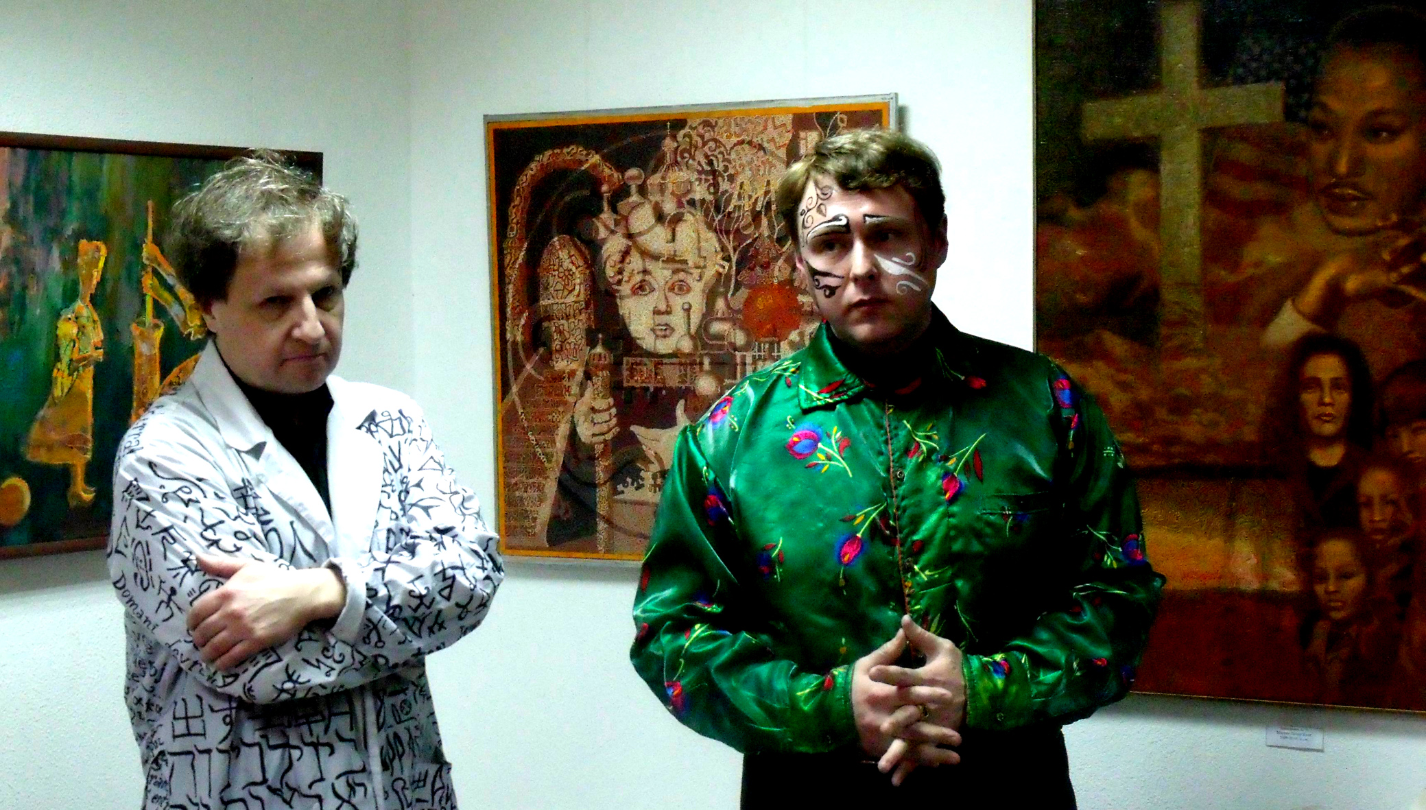 The poet and the polyglot - Willie Melnikov (left) and the artist - Alexey Akindinov, 2010. At opening of the International exhibition "Ornamentalizm 2010". Ryazan, Palitra Art salon gallery.